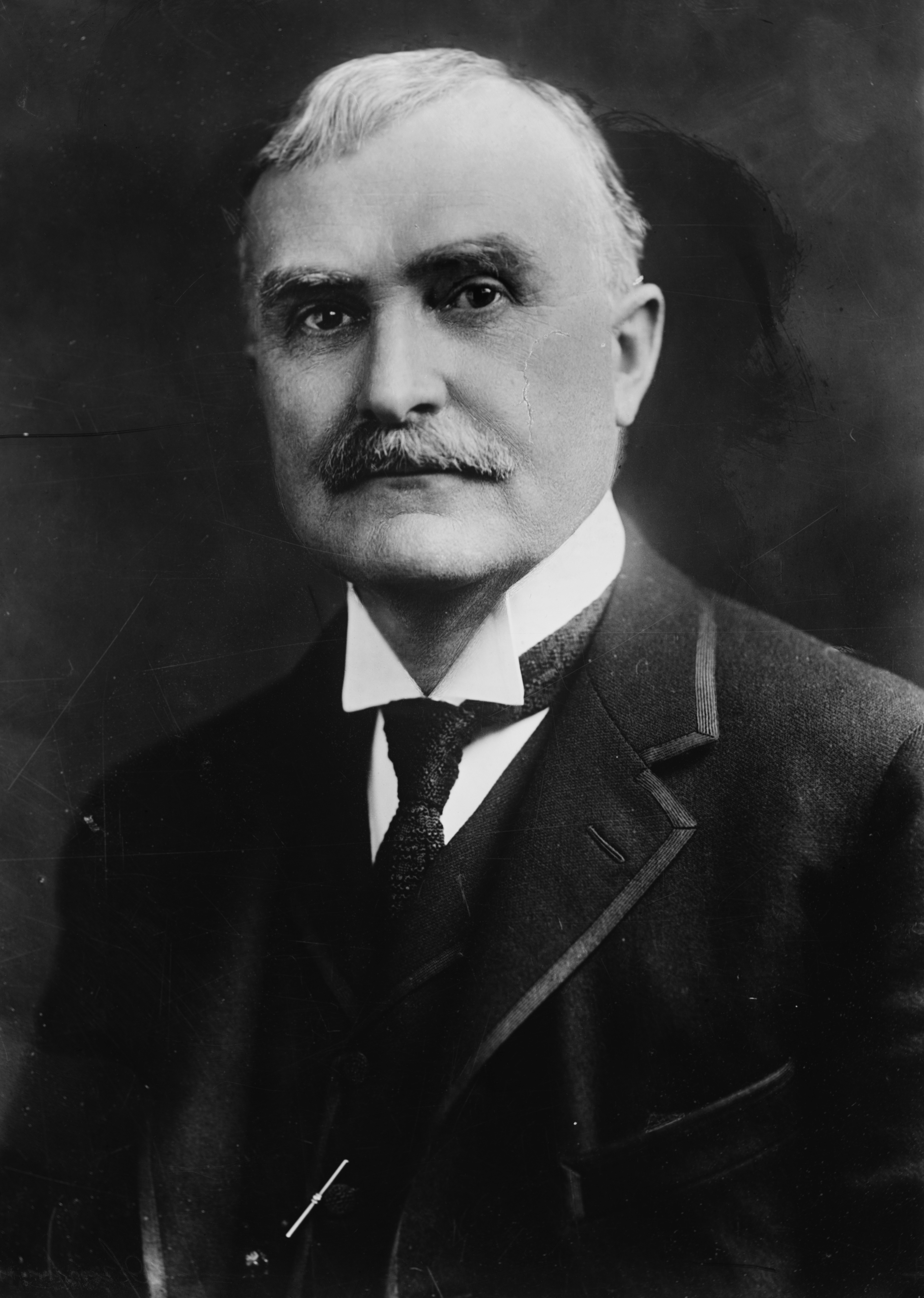 William Cabell Bruce, Pulitzer Prize-winning author and politician.